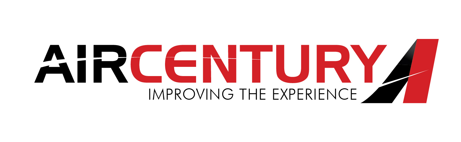 Logo Air Century 2015